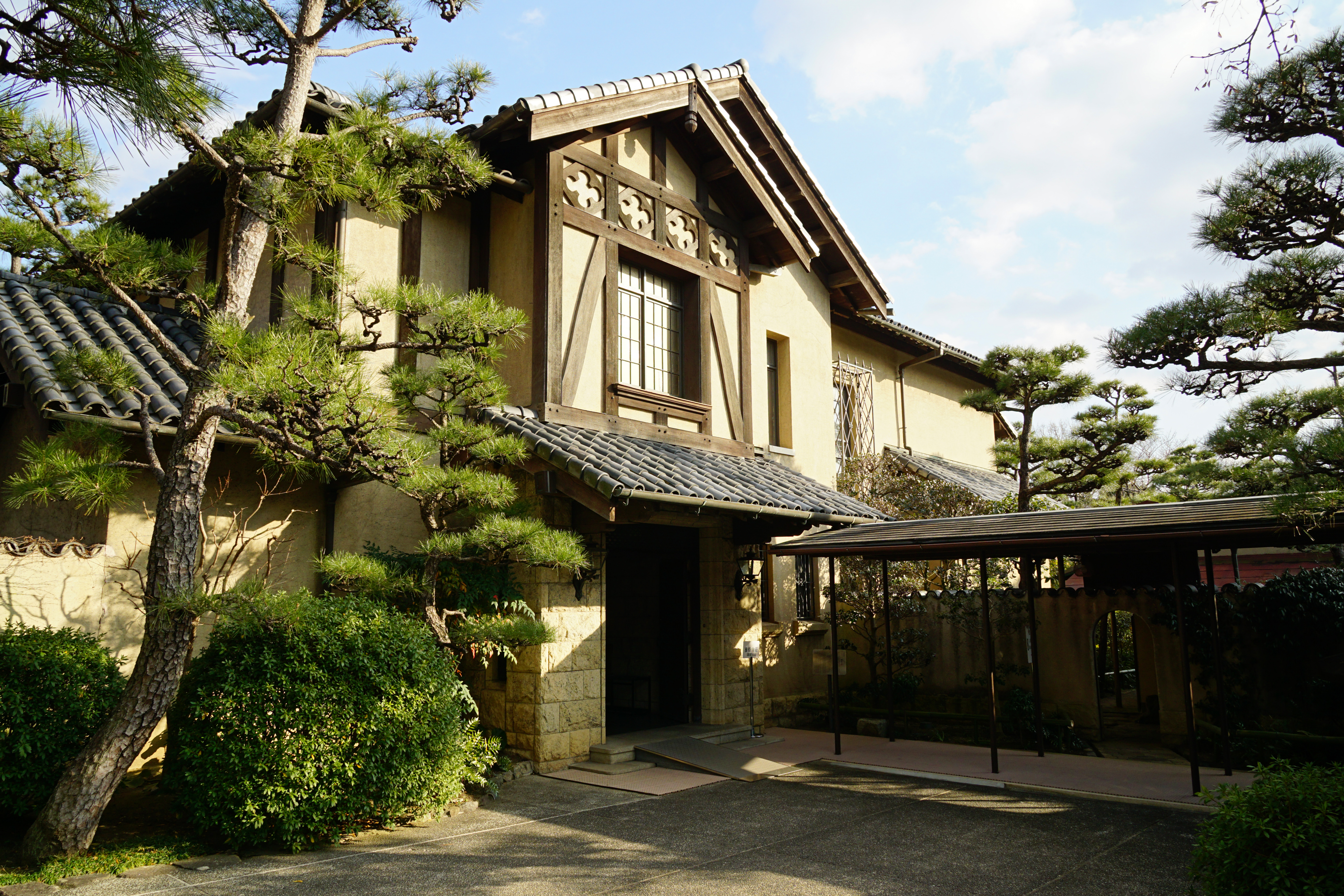 Itsuo Art Museum in Ikeda, Osaka prefecture, Japan.